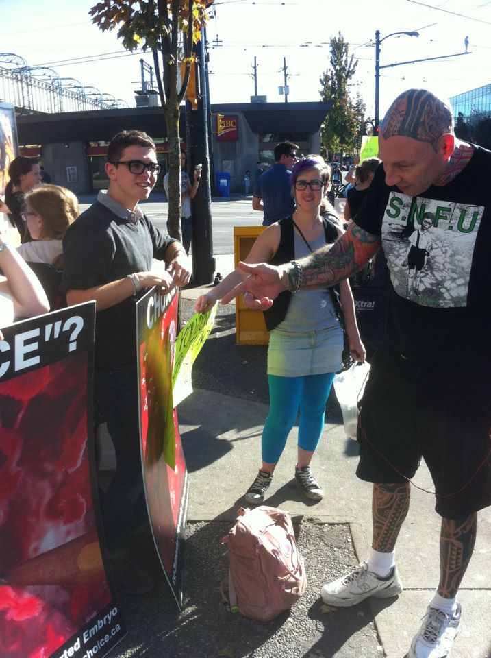 This is a photo of Chris Walter out side of Commercial and Broadway Station in East Vancouver telling Christians protesting abortion that "I believe in free speech and all but these signs are just over the top" Referring to the imagery and altered colouring on the graphic images they are using on their signs.